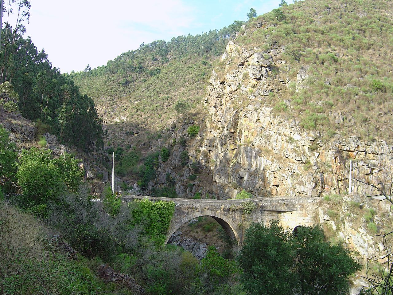 See where this picture was taken. [?]